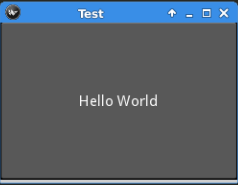 Hello World sample code. Python Kivy program.